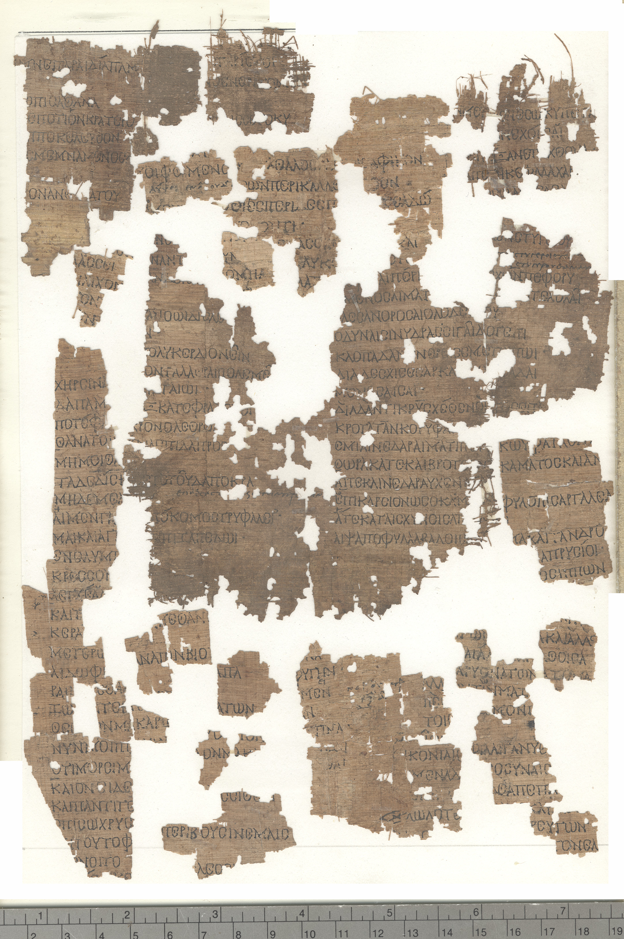 The POxy XXXII 2617 fragment. It contains Stesichorus' Geryoneis.